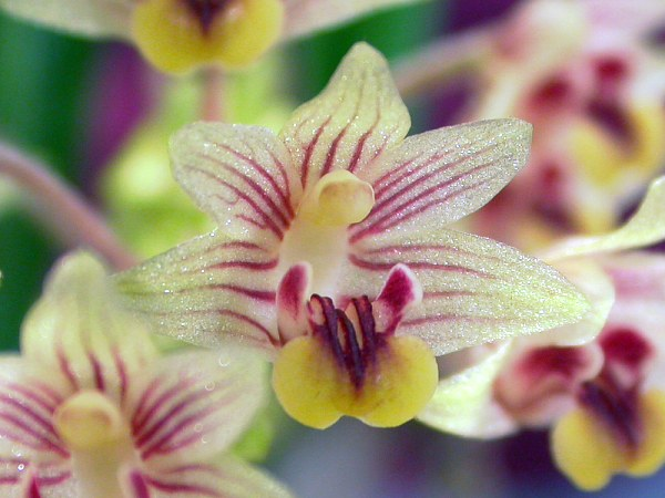 Eria